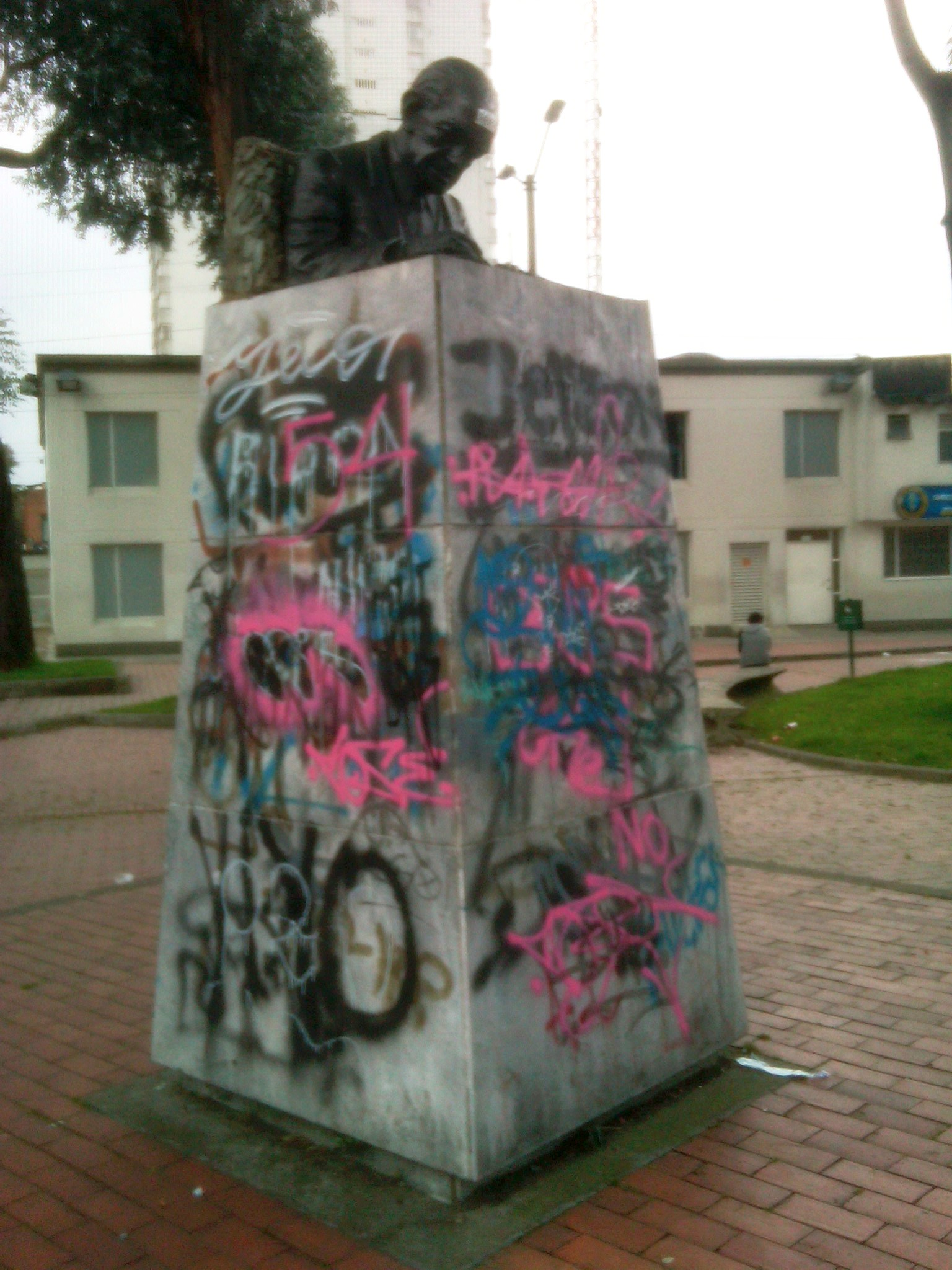 Bust of Luis Eduardo Nieto Caballero near the Flores TransMilenio station